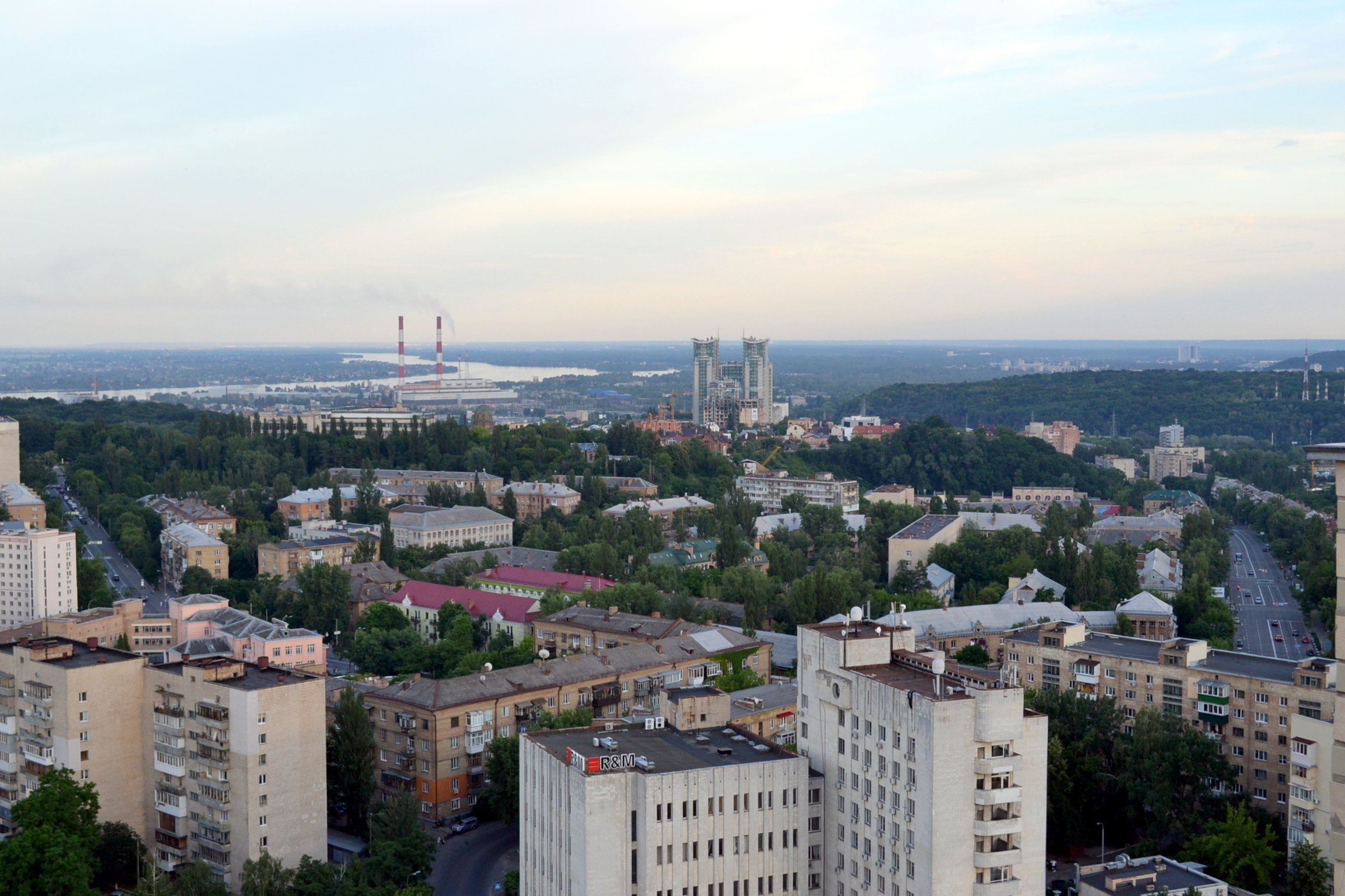 Zvirynets is a historic neighbourhood in Kiev.